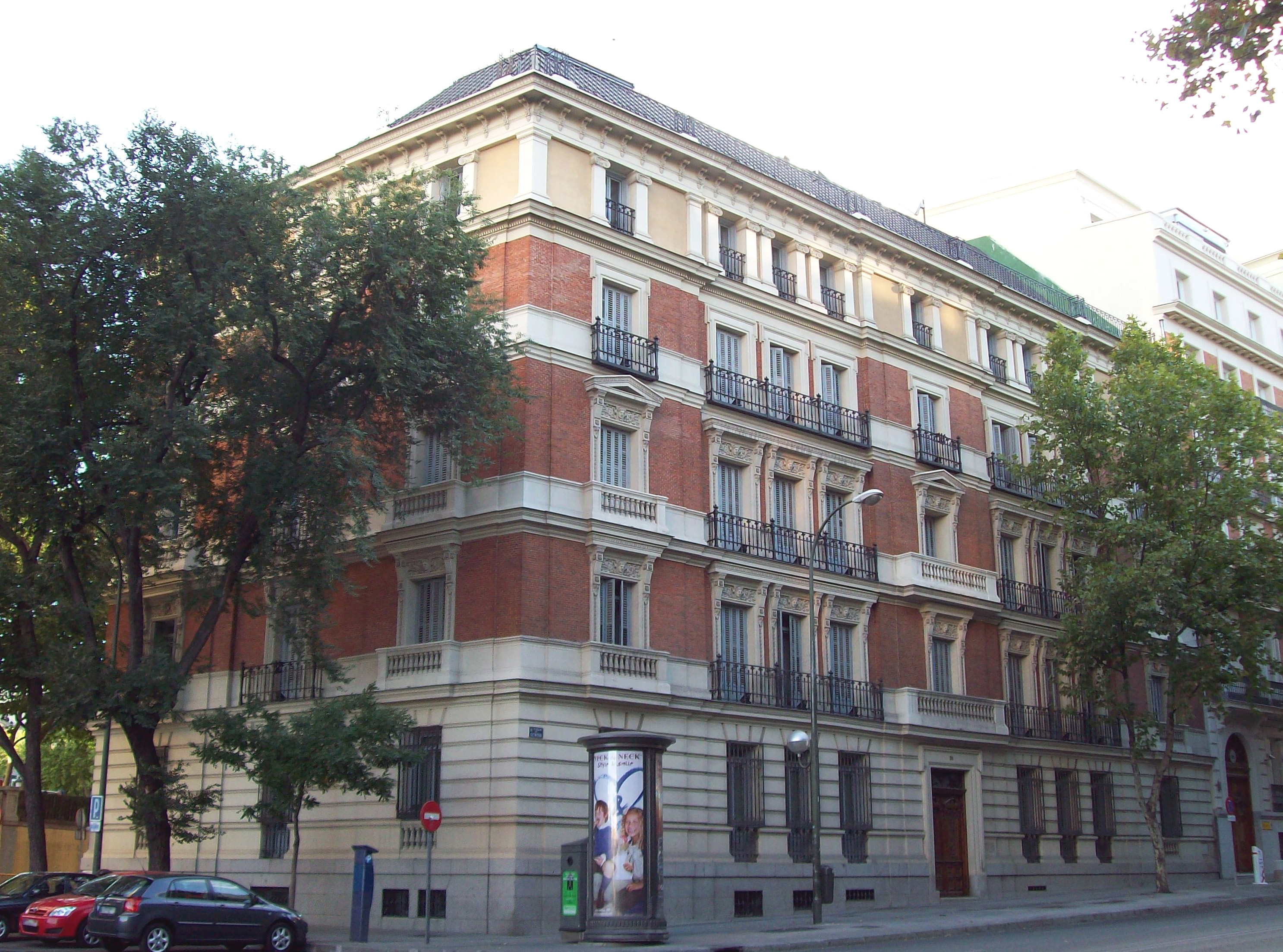 Façade of Gamazo Palace, at 26 Calle de Génova (street) in Centro district in Madrid (Spain). It was projected in 1886 by Ricardo Velázquez Bosco and built in the last quarter of the 19th century as a house-palace for the count of Gamazo. Nowadays it houses Société Générale's offices.